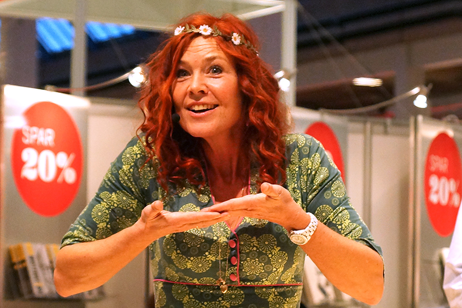 Joan Ørting - Danish sexologist and writer at the Copenhagen Book Fair "BogForum 2014", Copenhagen, Denmark